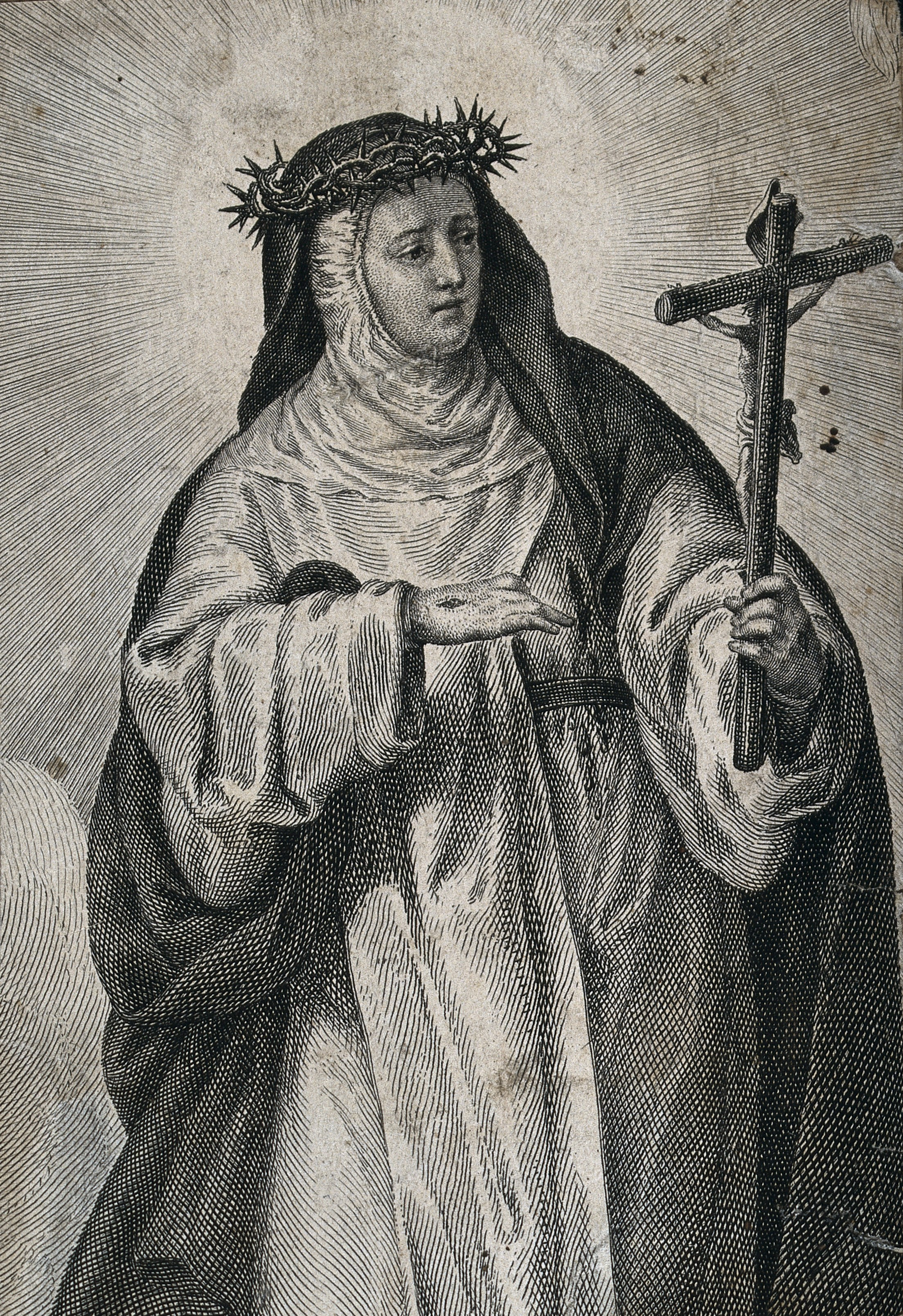 Saint Catherine of Siena. Line engraving. Iconographic Collections